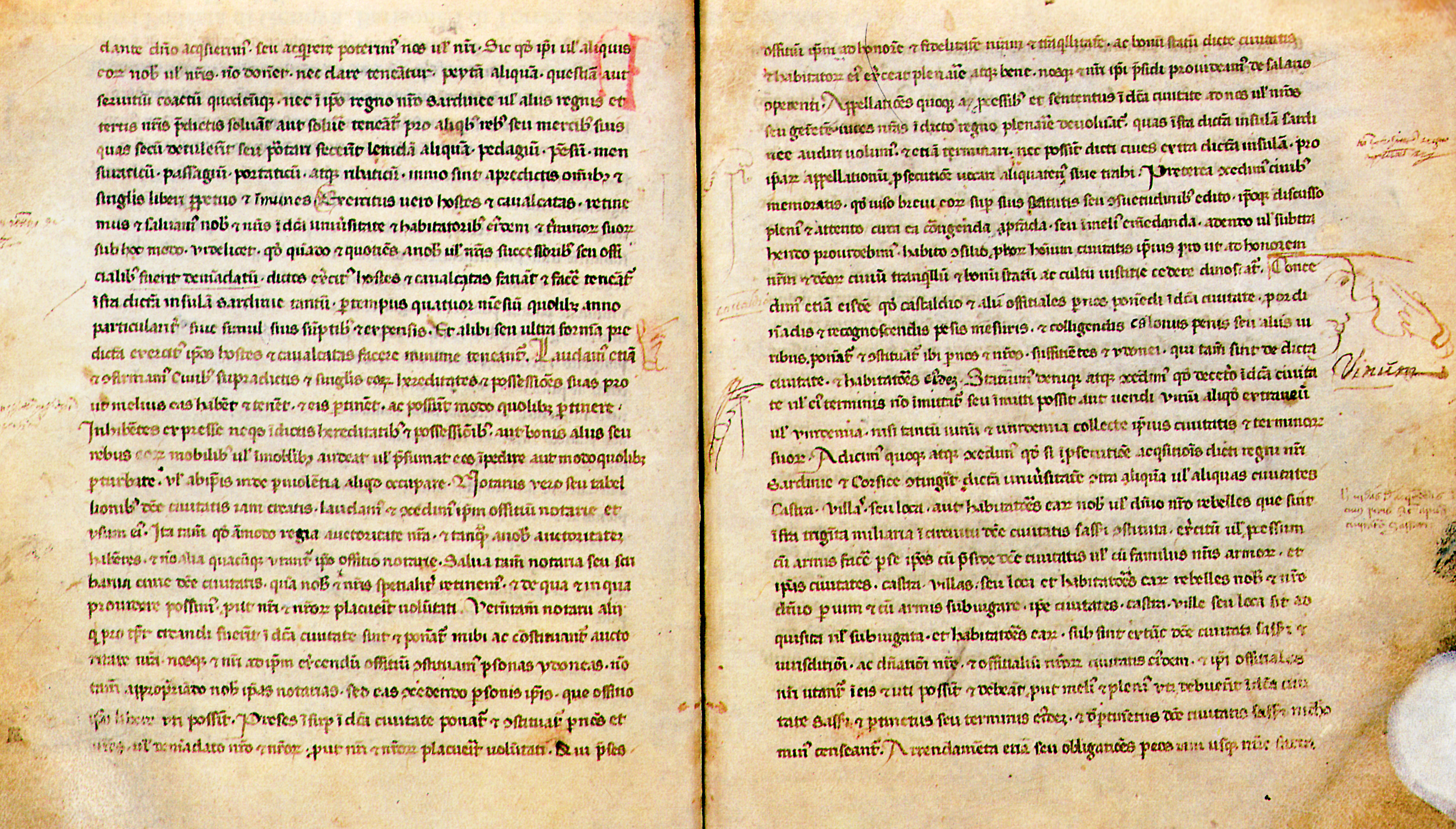 Medieval statutes of Sassari's Republic (XIII-XIV Century)